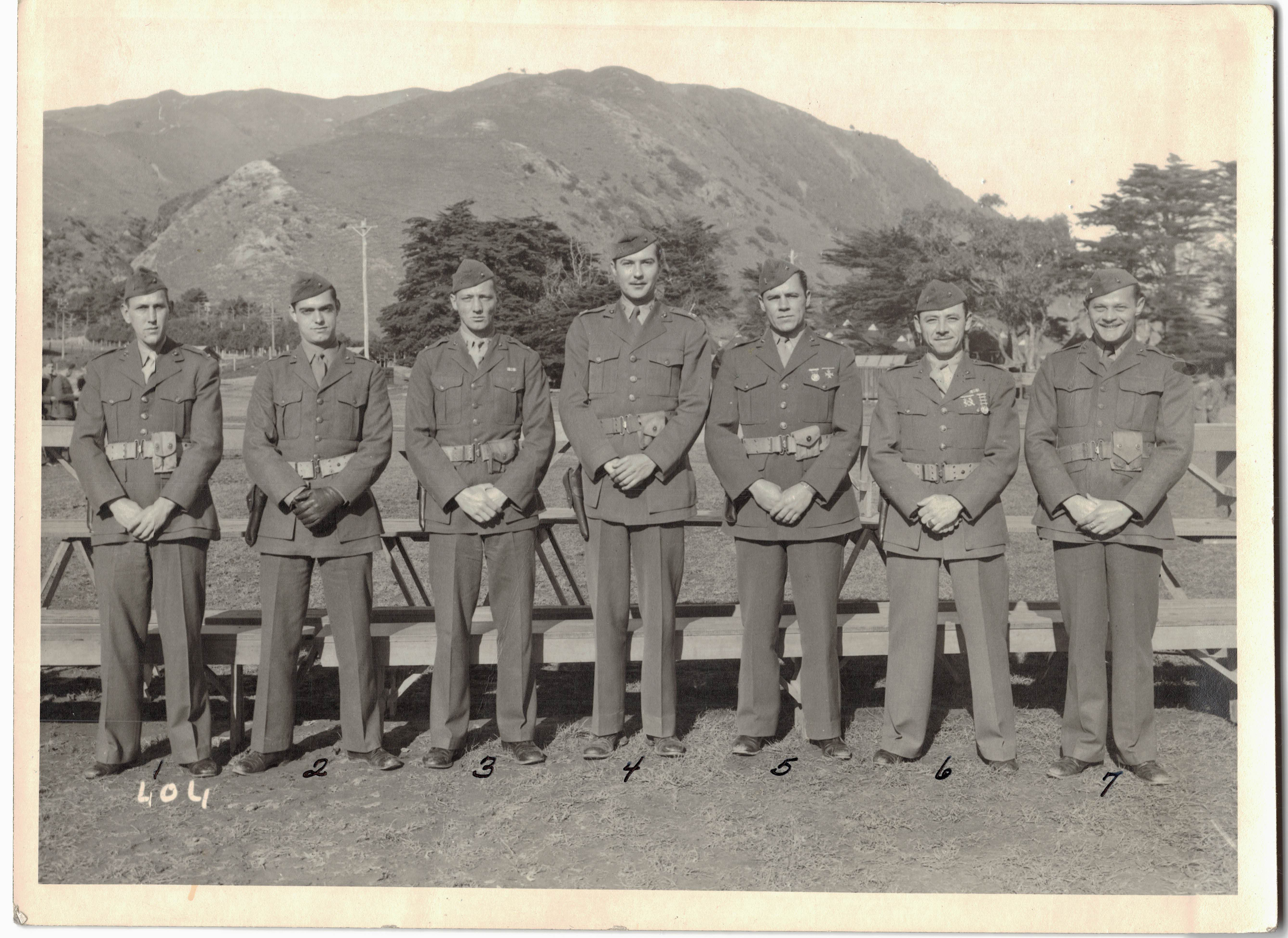 Photograph of the officers of Co. G, 2nd BN, 8th Marines 1. 2LT Buell F. Powell 2. 2LT Walter J. Olson 3. 2LT Walter E. Godenius 4. CPT Stephen C. Munson JR 5. 1LT Kenneth J. Fagan 6. 2LT Kenneth H Mosher 7. 2LT Edward J Harford